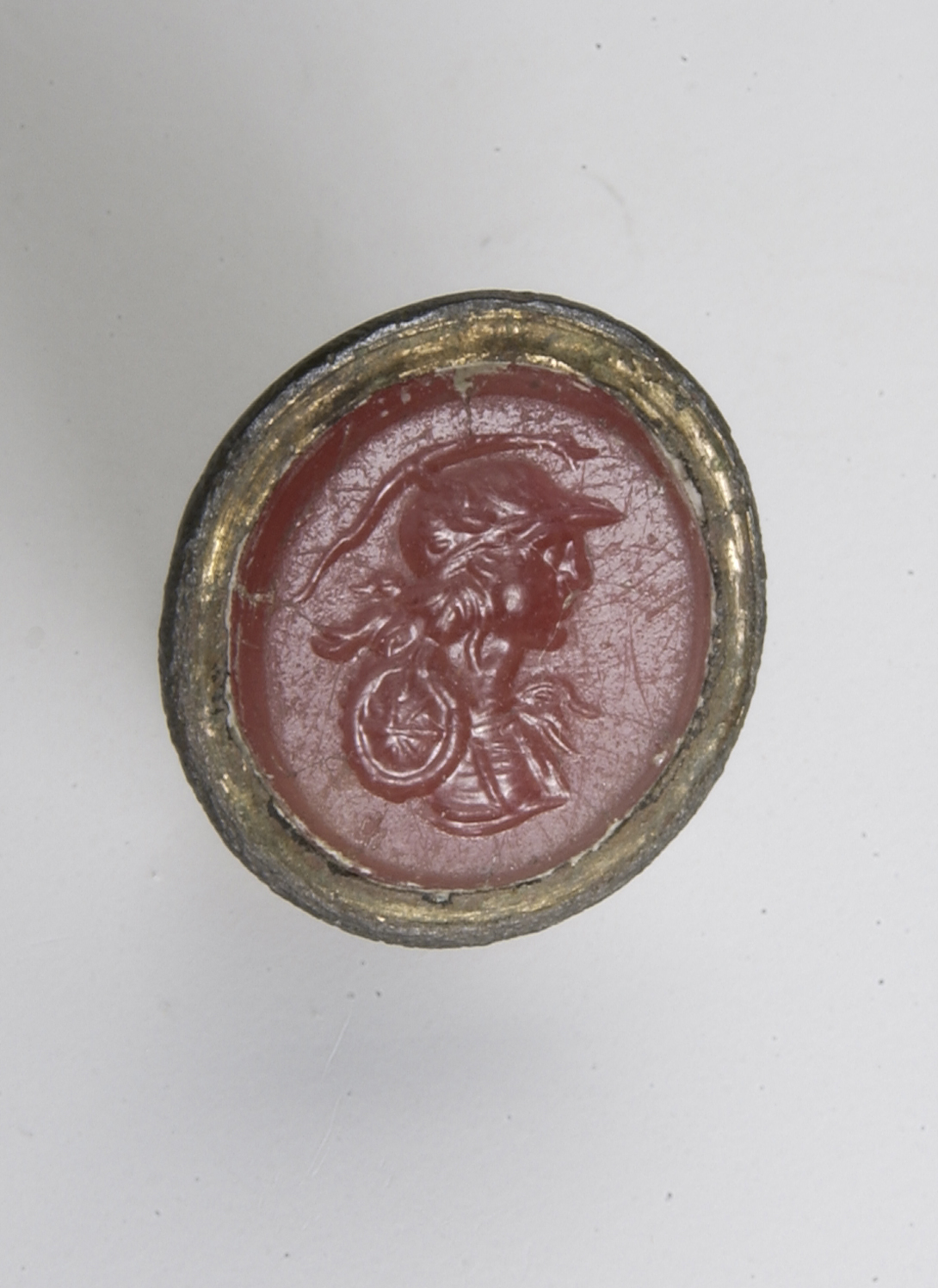 Bronze stamp with a red stone (cornelian) with a decoration (intaglio) of a goddess with a helmet, possibly Minerva or Roma